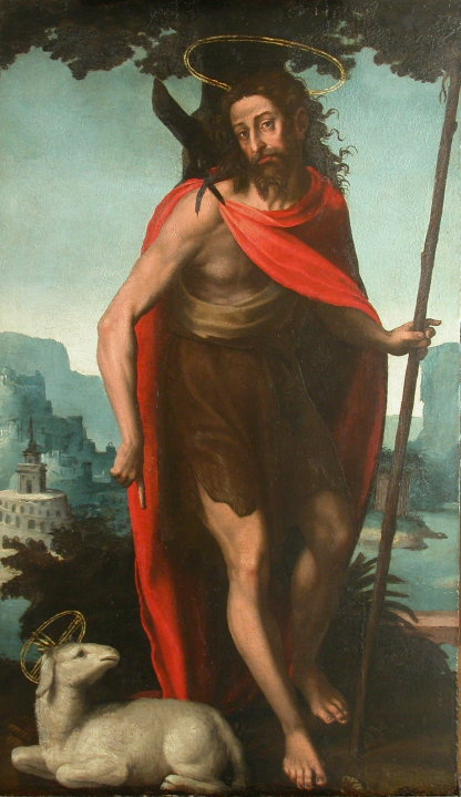 Saint John the Baptist